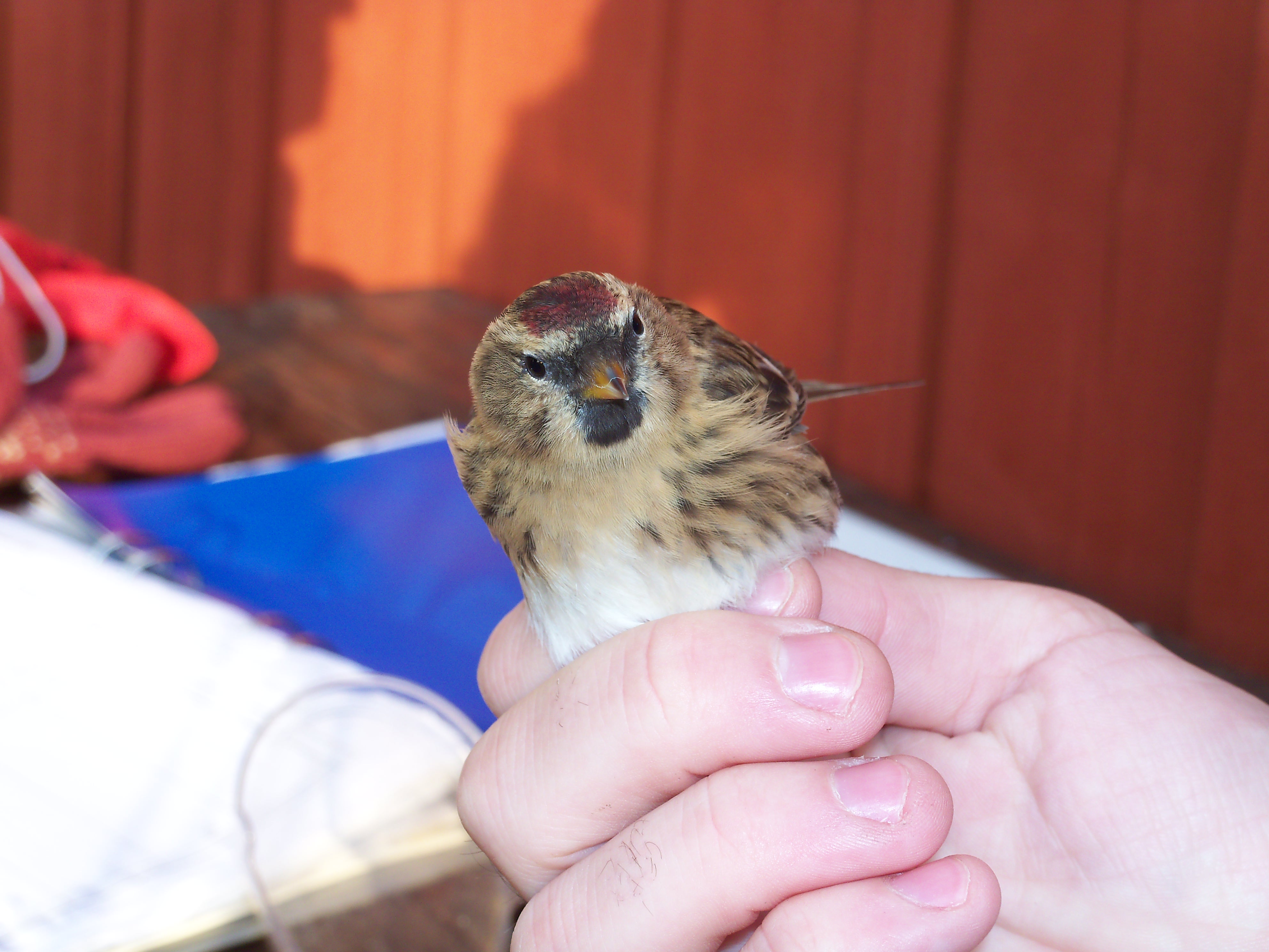 A Common Redpoll (Carduelis flammea) or (probably) a Lesser Redpoll (Carduelis cabaret) ringed at Landsort Lighthouse on the south cape of the island Öja (Landsort), south of Nynäshamn in Södermanland in Stockholm County in Sweden. Landsort Bird Observatory is responsible for the ringing.